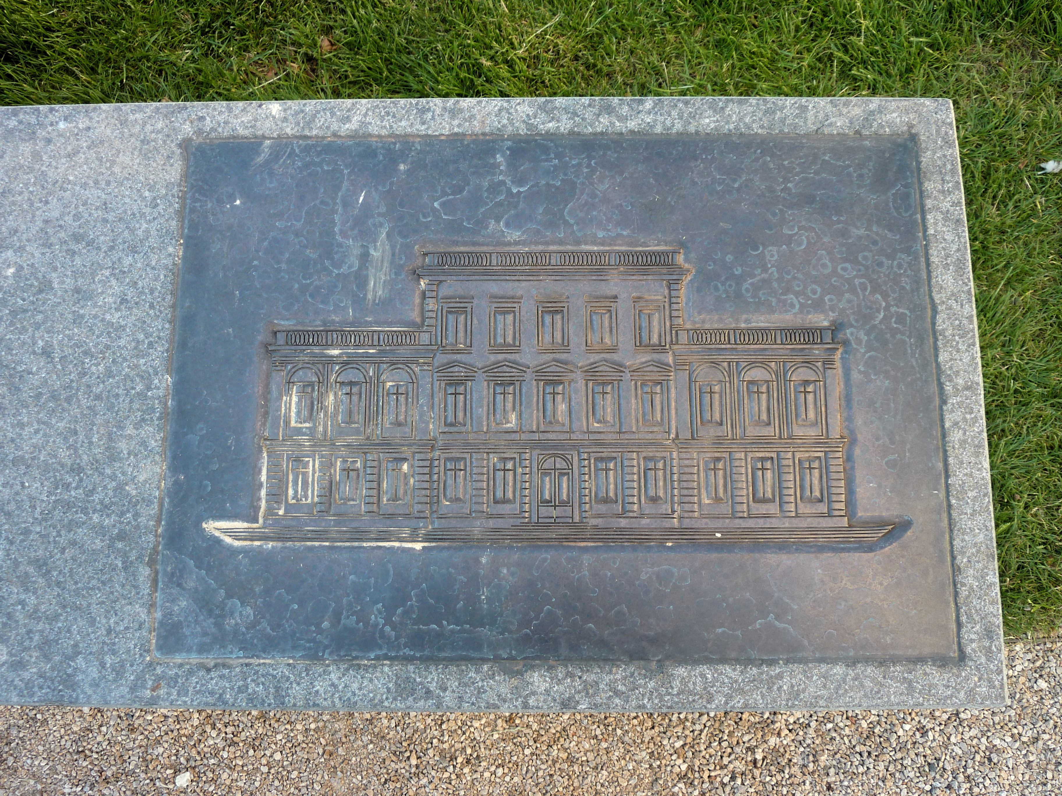 Frankfurt/M., Germany: Plaque in Rothschild Park, commemorating the Rothschild palais, built in 1831 on location, destroyed in 1944